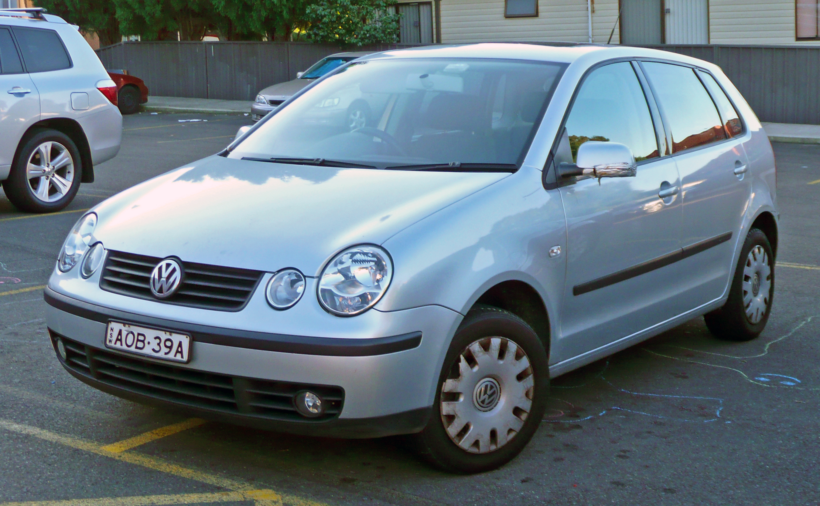 2002–2005 Volkswagen Polo (9N) 5-door hatchback. Photographed in Miranda, New South Wales, Australia.